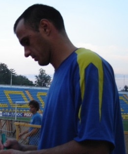 Montenegrian footballer Ivica Kralj on training practice in FC Rostov.